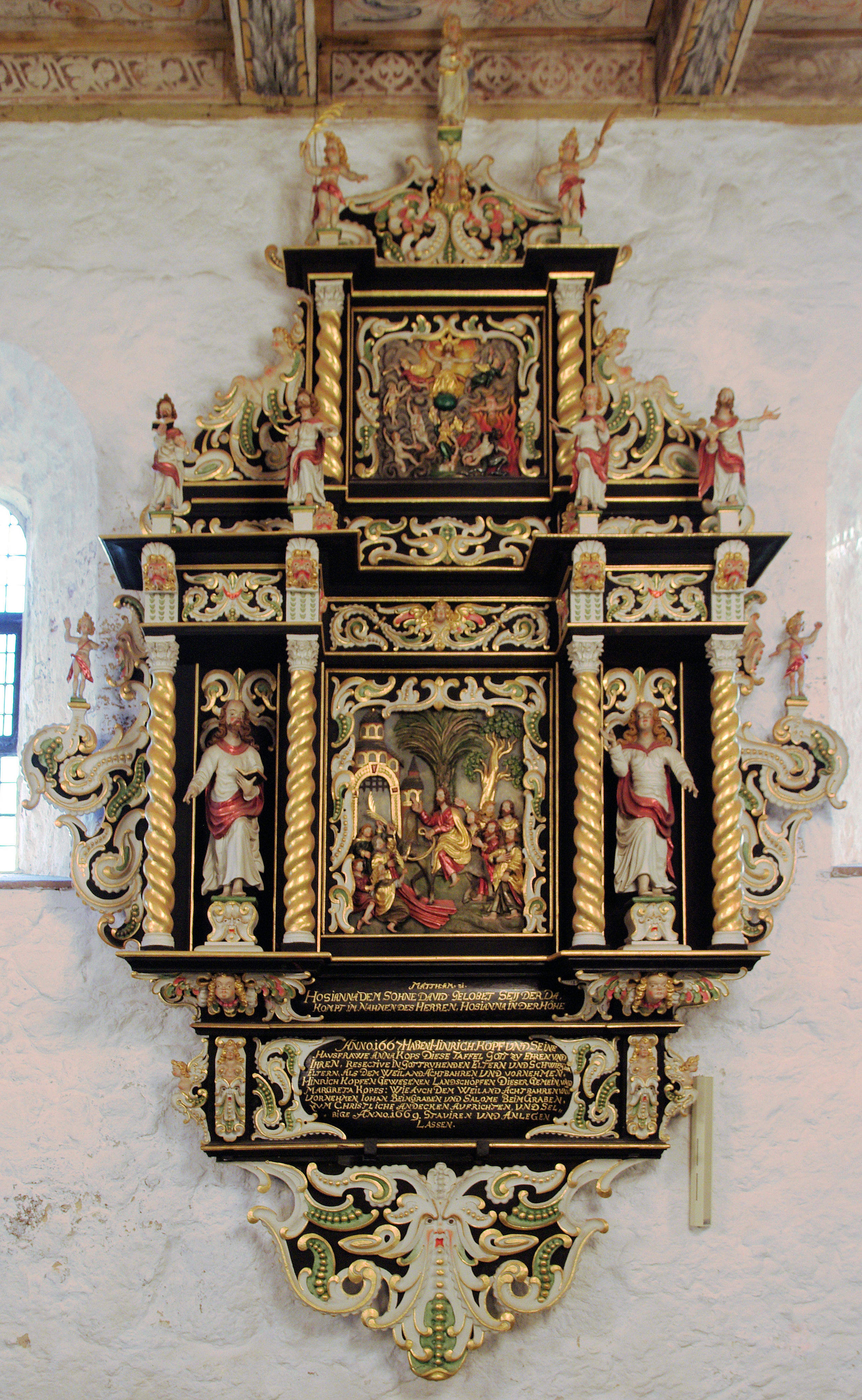 Epithaph